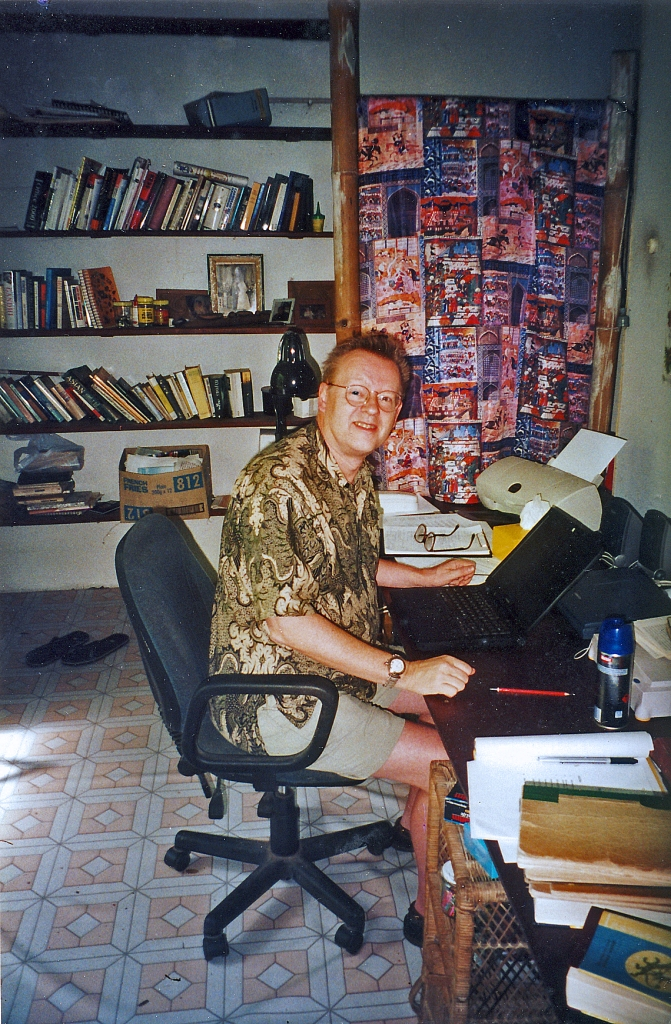 Image taken about 2000 in my home in Cooktowon, Australia